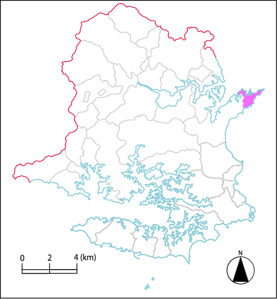 This is the map of Agocho-Anori, Shima, Mie, Japan.